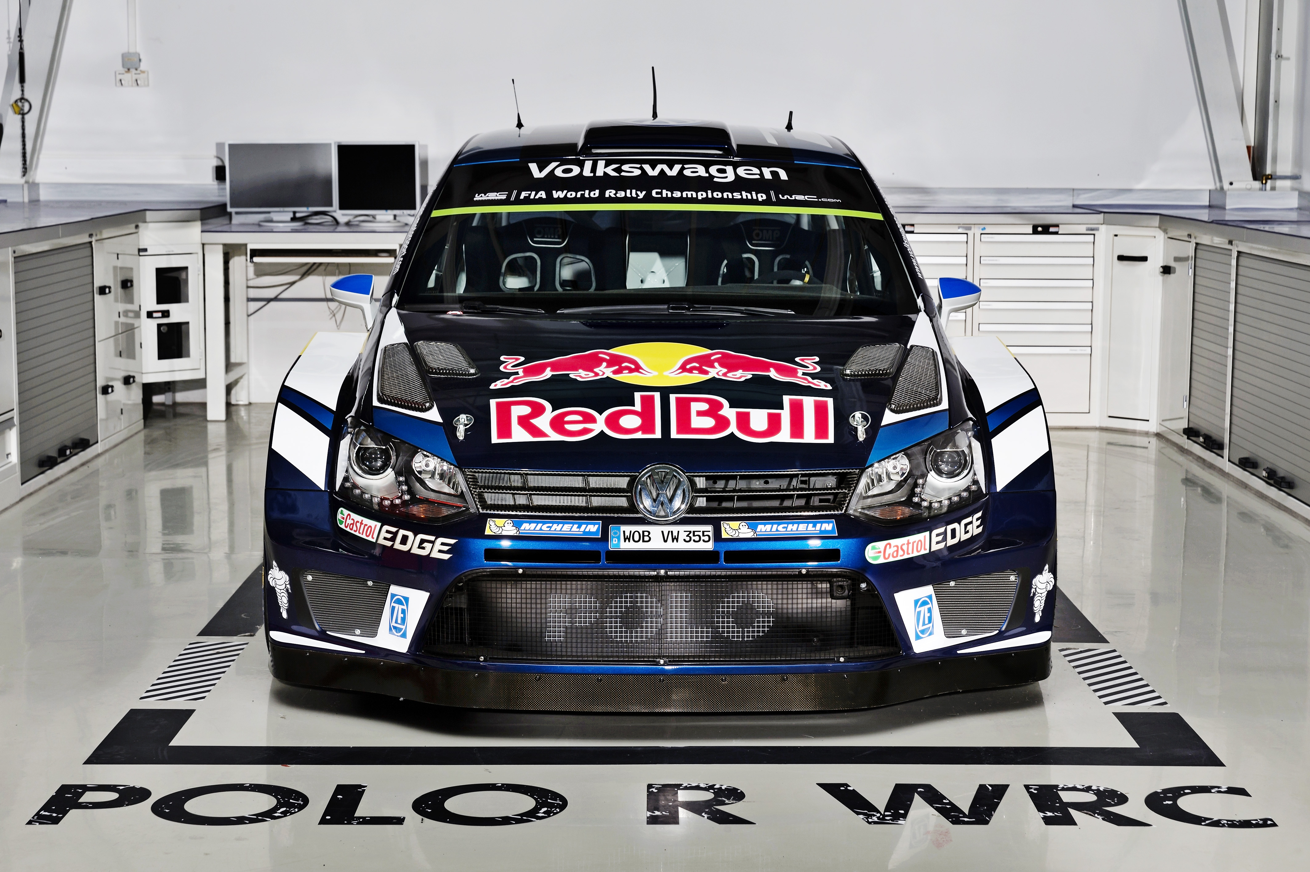 A Volkswagen Polo R WRC rally car, plate number WOB VW 355, chassi no. #5. This chassi was never entered in a WRC event. It was used by Volkswagen Motorsport for testing and later as a show car, at various motor shows around the world. The only time it raced was as a course car, driven by Carlos Sainz (with co-driver Luis Moya) at a WRC Legends event in San Marino, October 2013. Shown here with upgrades, for the 2016 WRC season.